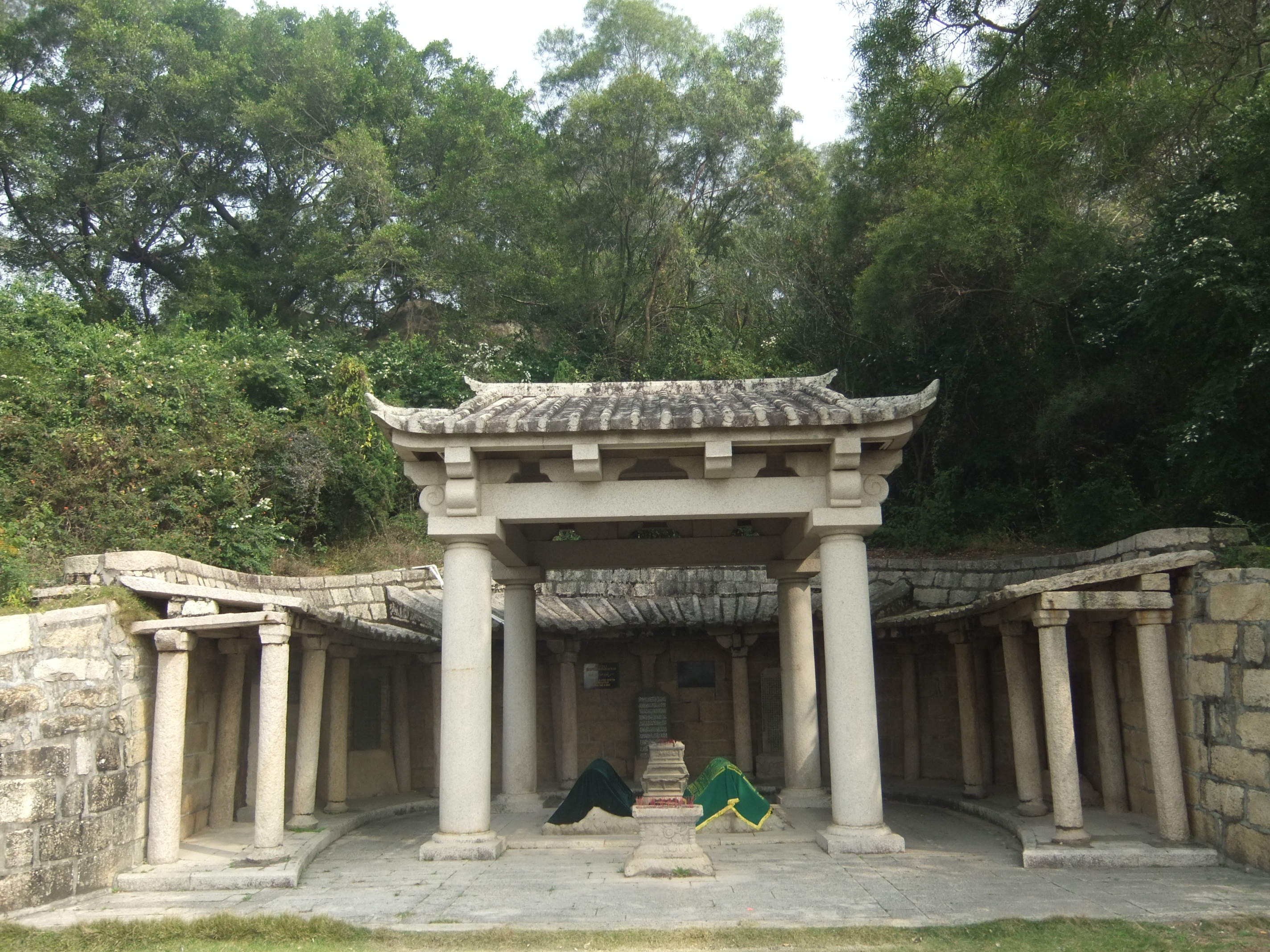 The tombs of the "Two Worthies", two early Islamic missionaries that supposedly came to Quanzhou to propagate Islam in the 7th century. They are the centerpiece of Lingshan Islamic Cemetery (Lingshan Park) in Quanzhou. There are a number of stelae next to them, erected at various times from the Yuan Dynasty to the present day.